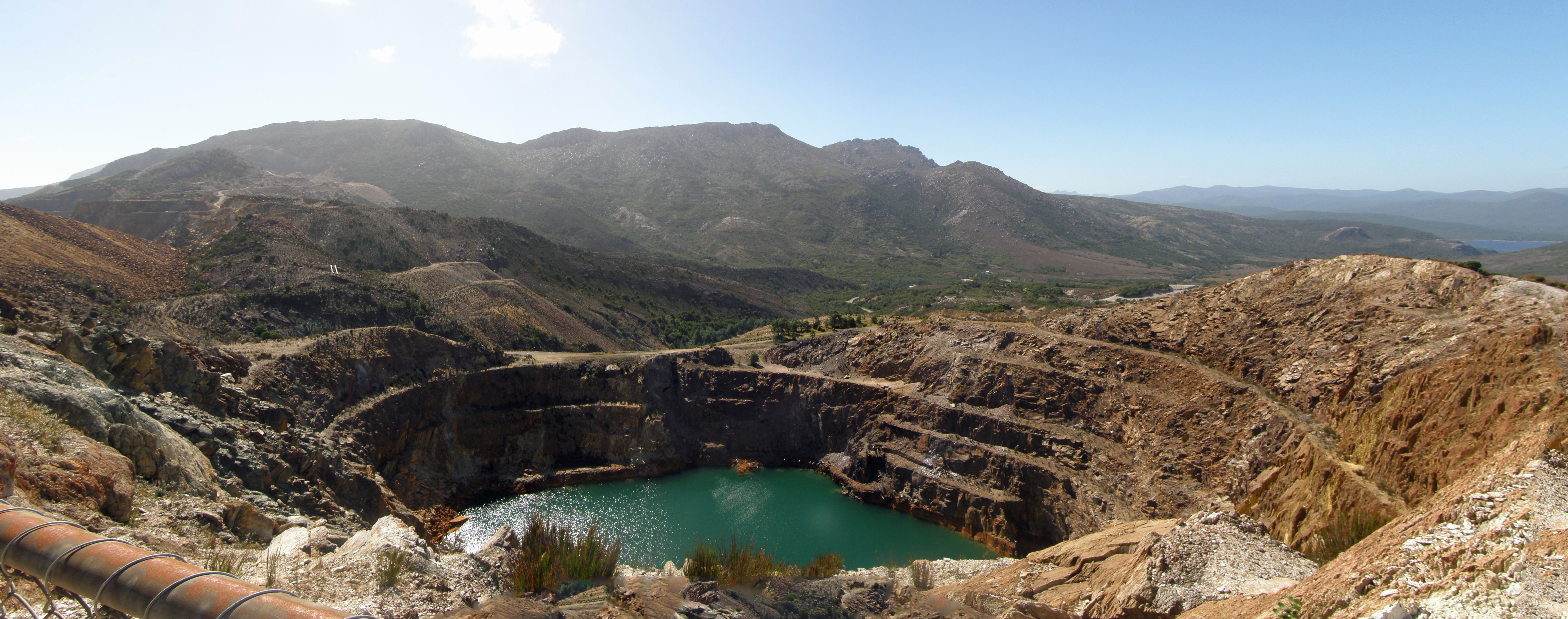 Picture of Iron Blow taken from the Iron Blow Lookout